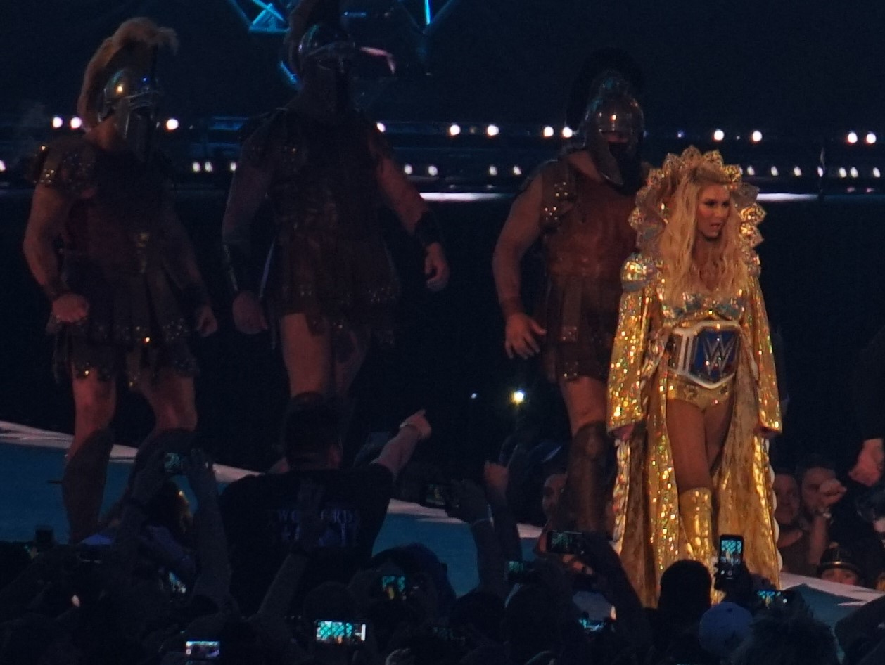 WWE SmackDown Women's champion Charlotte Flair at WrestleMania 34.